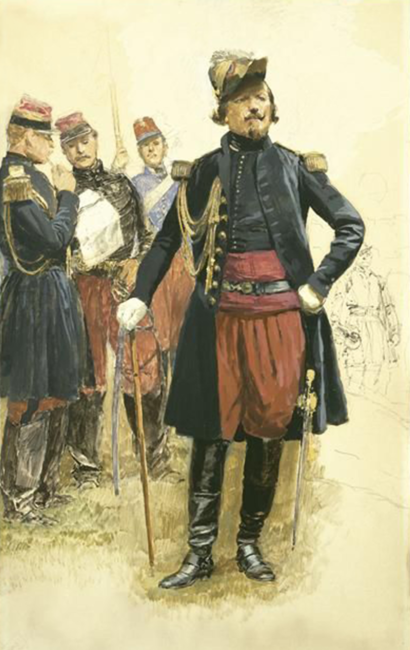 François Certain Canrobert